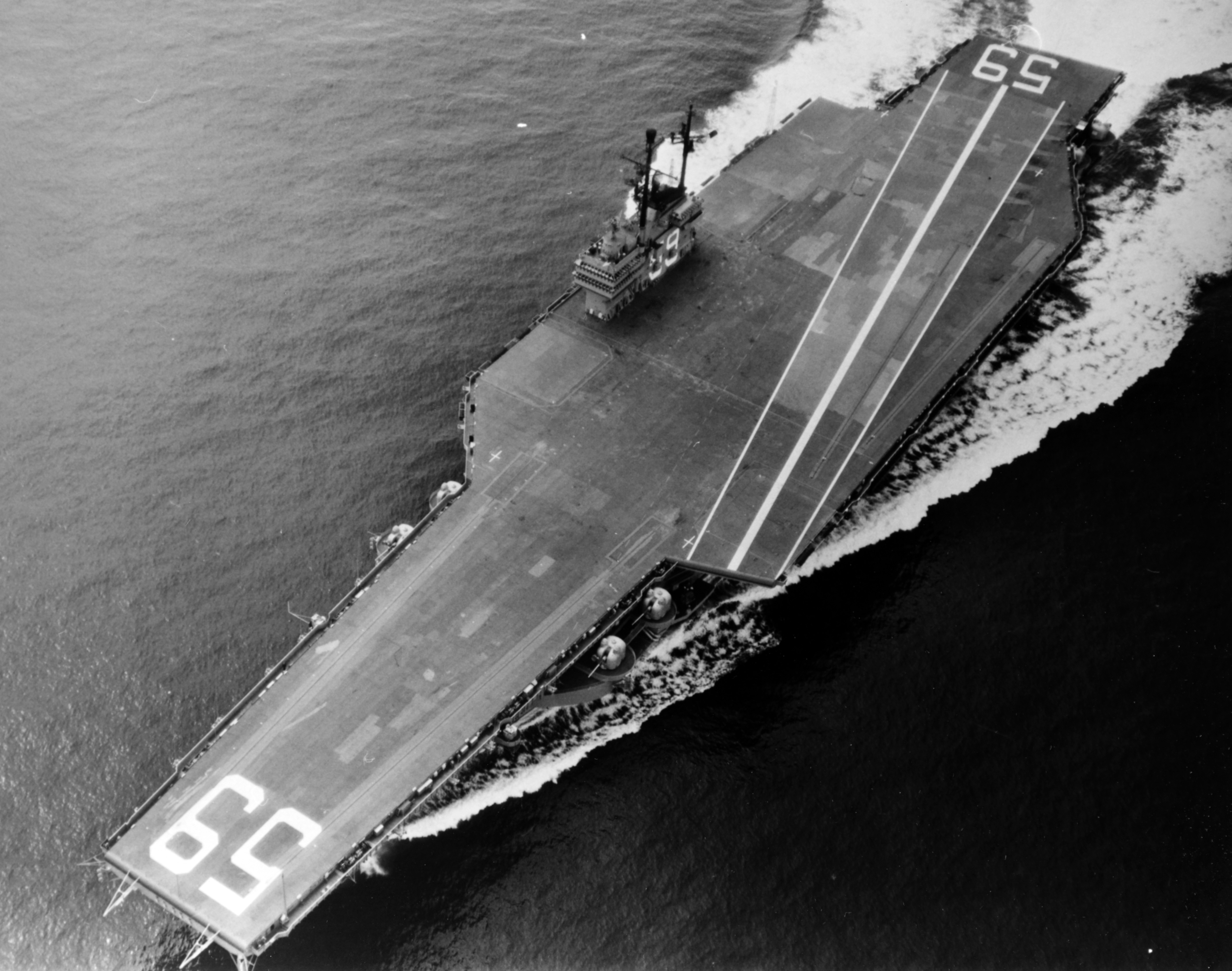 80-G-682046: USS Forrestal (CVA-59): Underway on trials, 29 September 1955, just prior to commissioning. Official U.S. Navy Photograph, now in the collections of the National Archives. (2016/01/14).